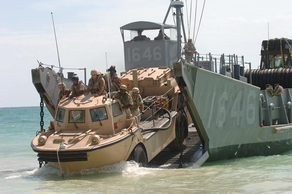 BMU-1 in Hawaii